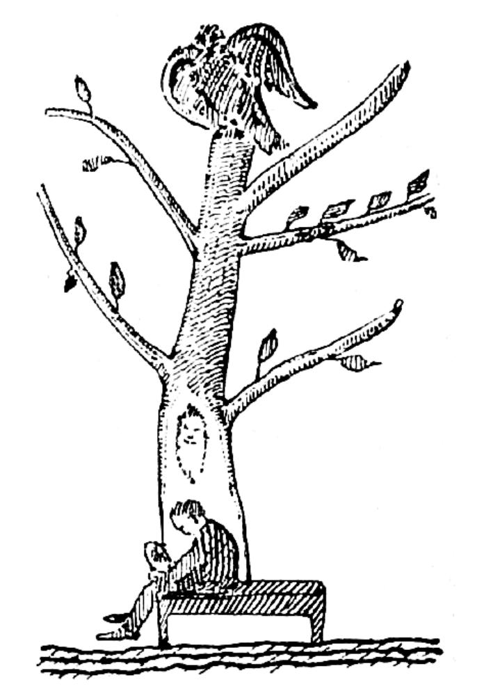 Satirical drawing by the Romanian artist Nicolae Tonitza, criticizing bourgeois preferences in public art. Published alongside an Adevărul lampoon, where Tonitza mocks sculptor Ion Schmidt-Faur and the citizens of Iaşi City, who were designing a kitsch monument to poet Mihai Eminescu. Here, Tonitza presents his own, tongue-in-cheek, monument to the writer: a bronze linden tree, symbolic of where Eminescu "made love to his girlfriend, Veronica Micle"; a bench, where a "lonely and pensive" Eminescu awaits for Micle; a hollow, and an owl "with phosphorous eyes" that is symbolic of "philosophy"; crowning the tree, a giant eagle holding up the crest of Moldavia - "the nationalism of our great and unforgotten Eminescu took root in Moldavia and survives over centuries thanks to the Romanian eagle, that is to say the guiding principle of Romanianism".